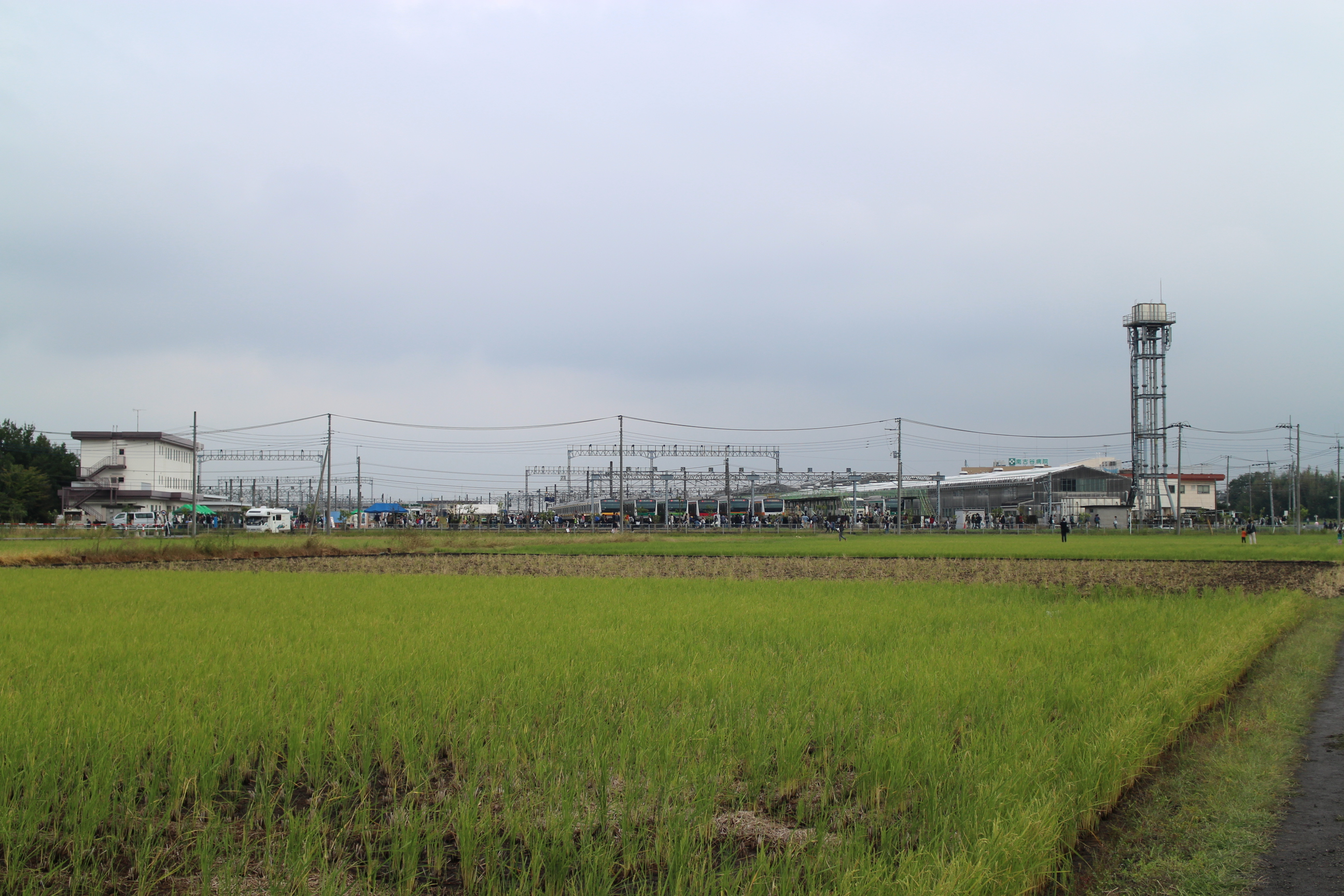 The open day at Kawagoe Rolling Stock Center viewed from a distance